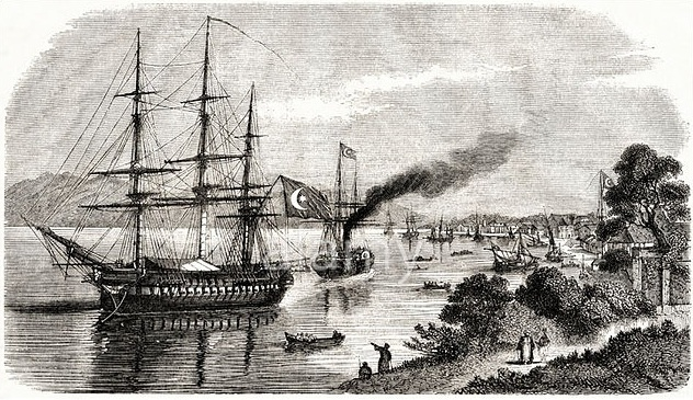 Turkish navy frigate in the port of Batoum during the Crimean War. Victorian engraving c.1854.